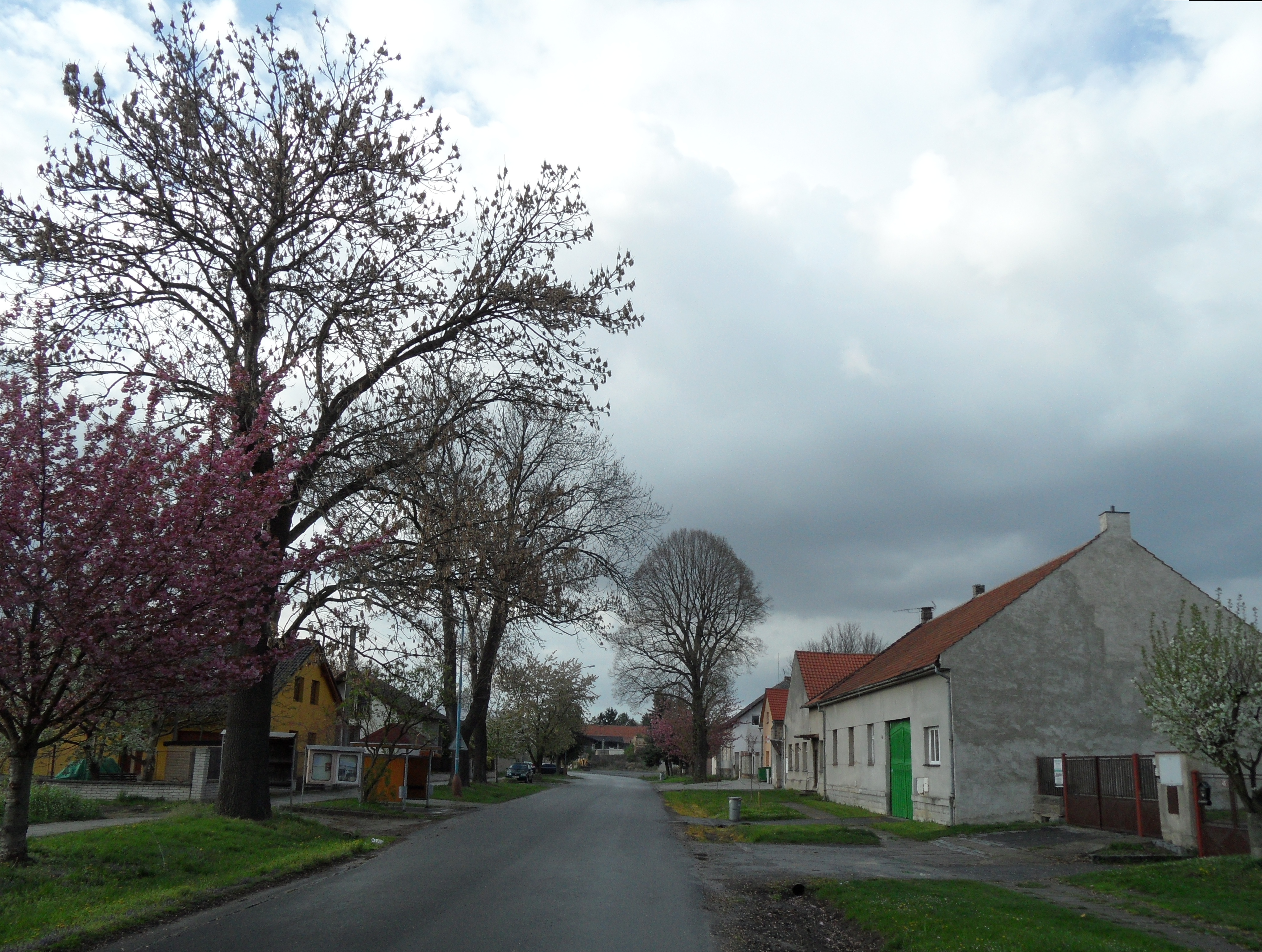 Vítězov G. Houses along Road to Velim, Kolín District, the Czech Republic.